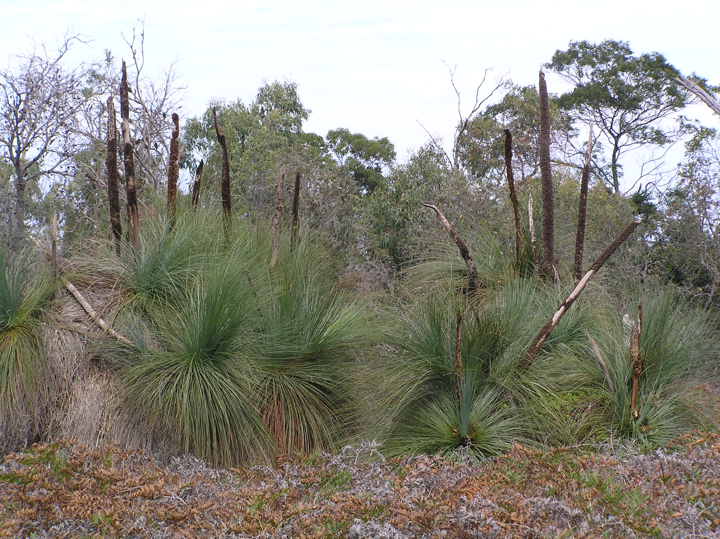 Austral Grasstrees in the Ocean Grove Nature Reserve. The OGNR is close to Ocean Grove on the Bellarine Peninsula, Victoria, Australia.